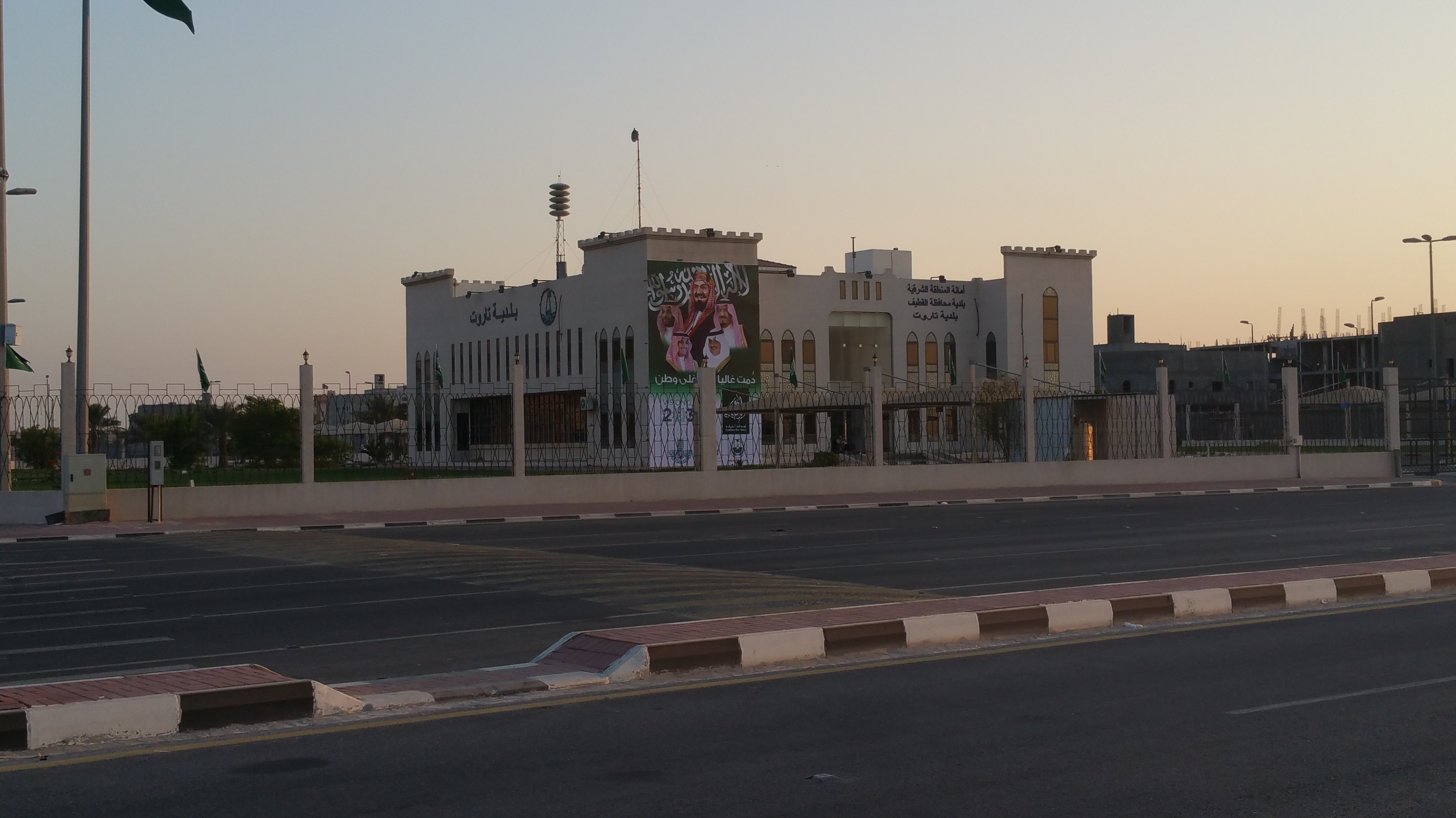 A view of White Ramla beach, in Tarout Island of Saudi Arabia.